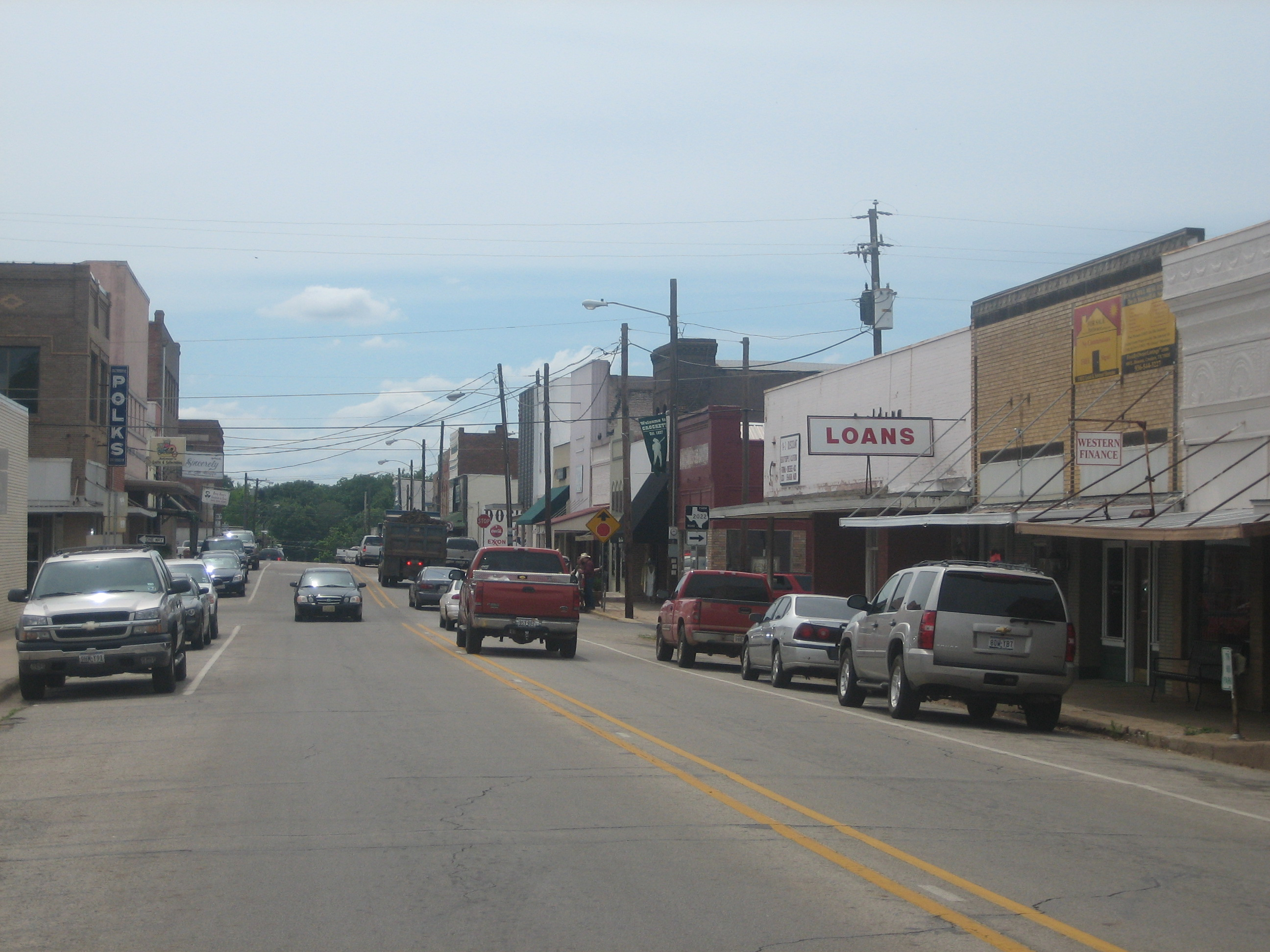 I took photo on May 27, 2009.Billy Hathorn (talk) 18:29, 31 May 2009 (UTC)